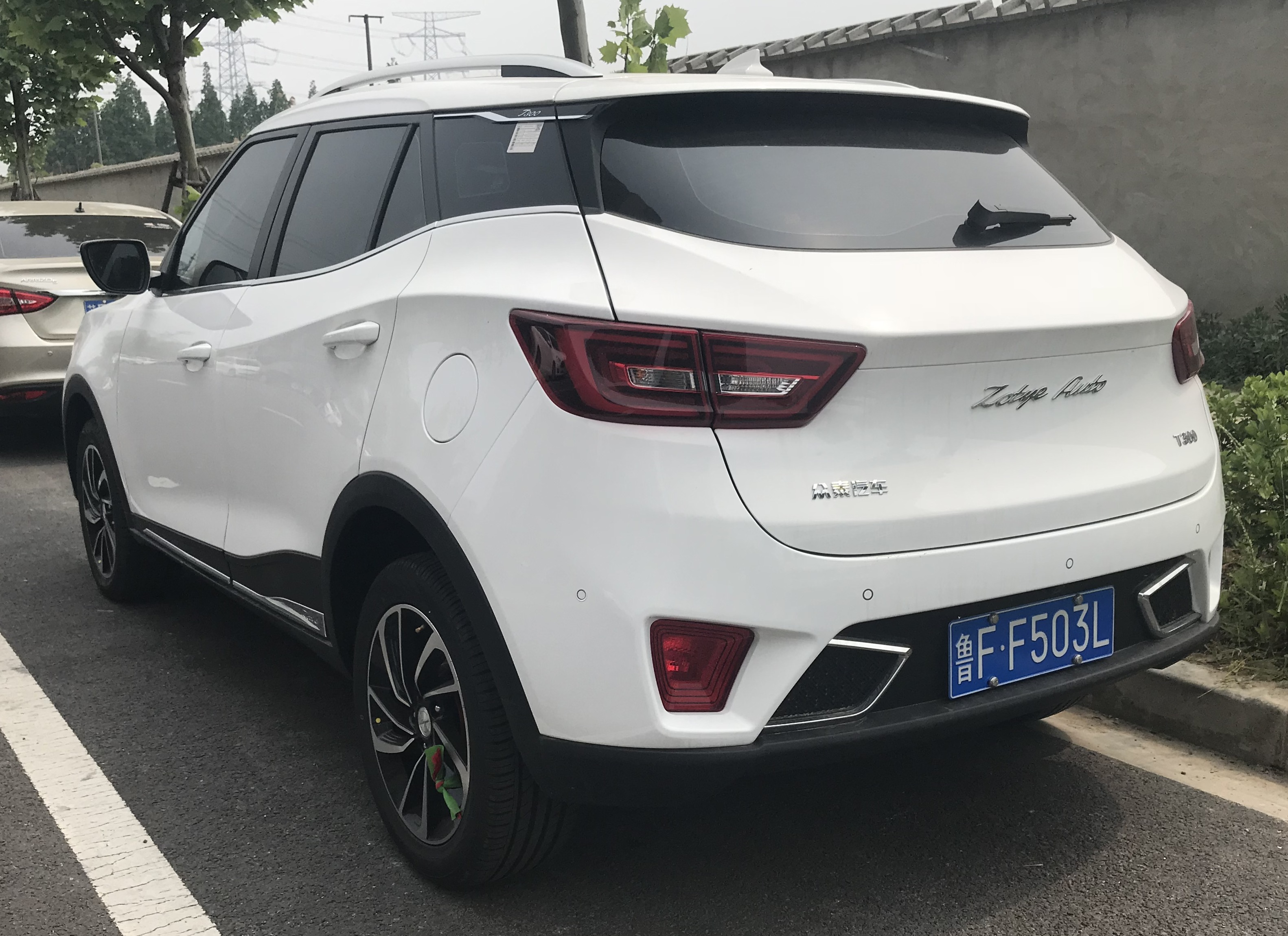 Zotye T300